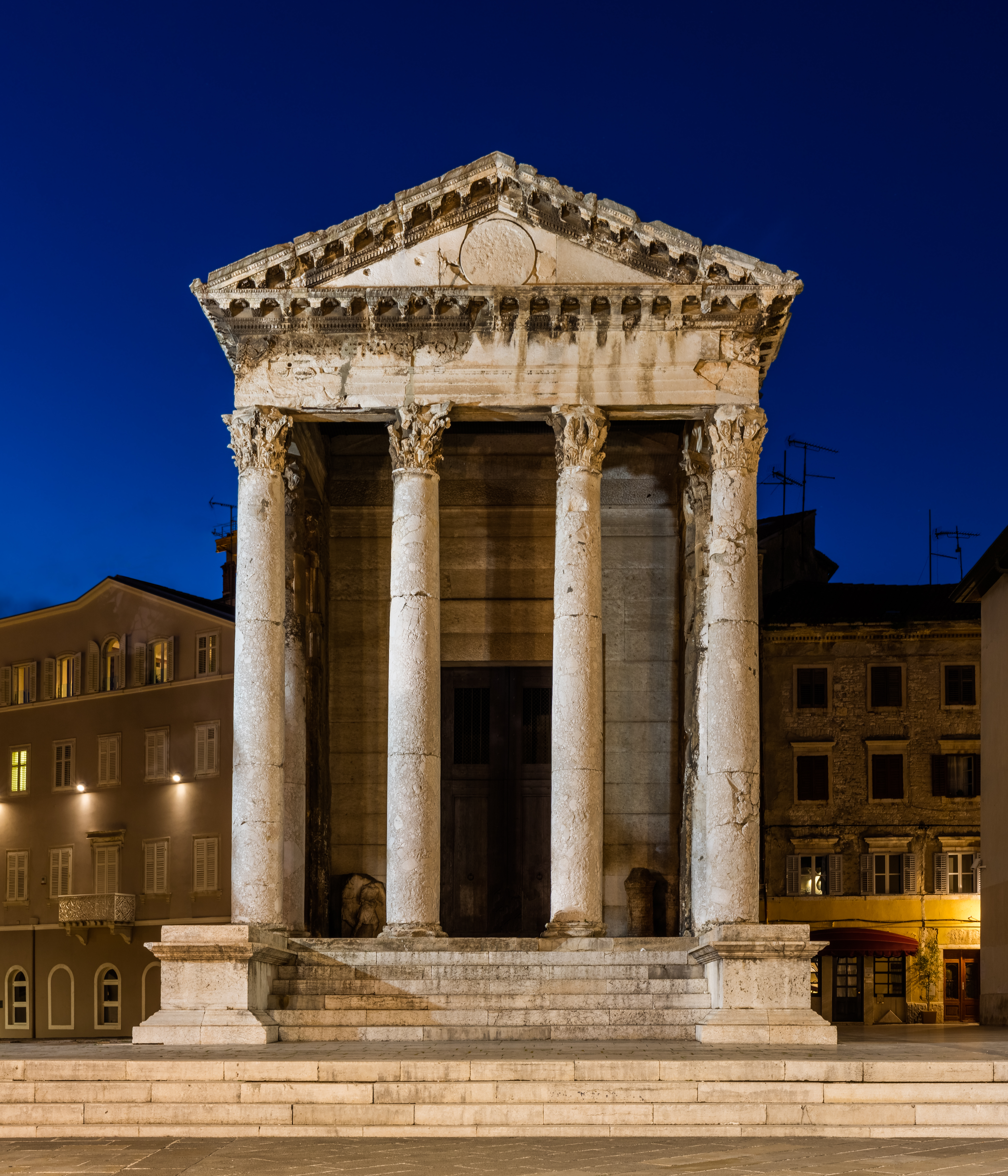 Temple of Augustus, Pula, Croatia. The Roman temple is dedicated to the first Roman emperor, Augustus, it was probably built during the emperor's lifetime at some point between 27 BC and his death in AD 14. The richly decorated frieze is similar to that of Maison Carrée (Nîmes, France), and these two temples are considered the two best complete Roman monuments outside Italy. This is a a photo of a cultural heritage in Croatia with ID: Z-864